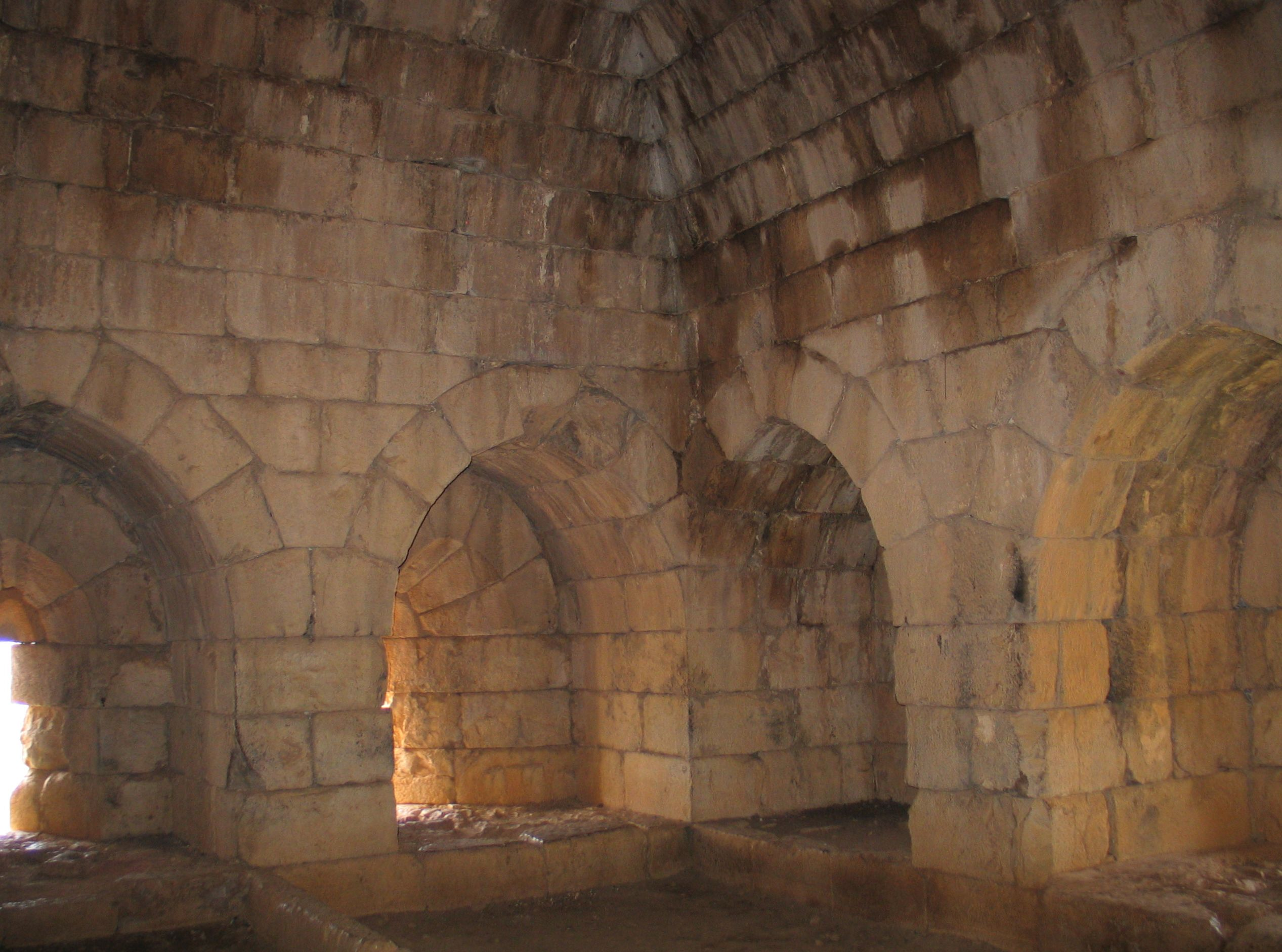 Nimrod fortress, the northern tower.